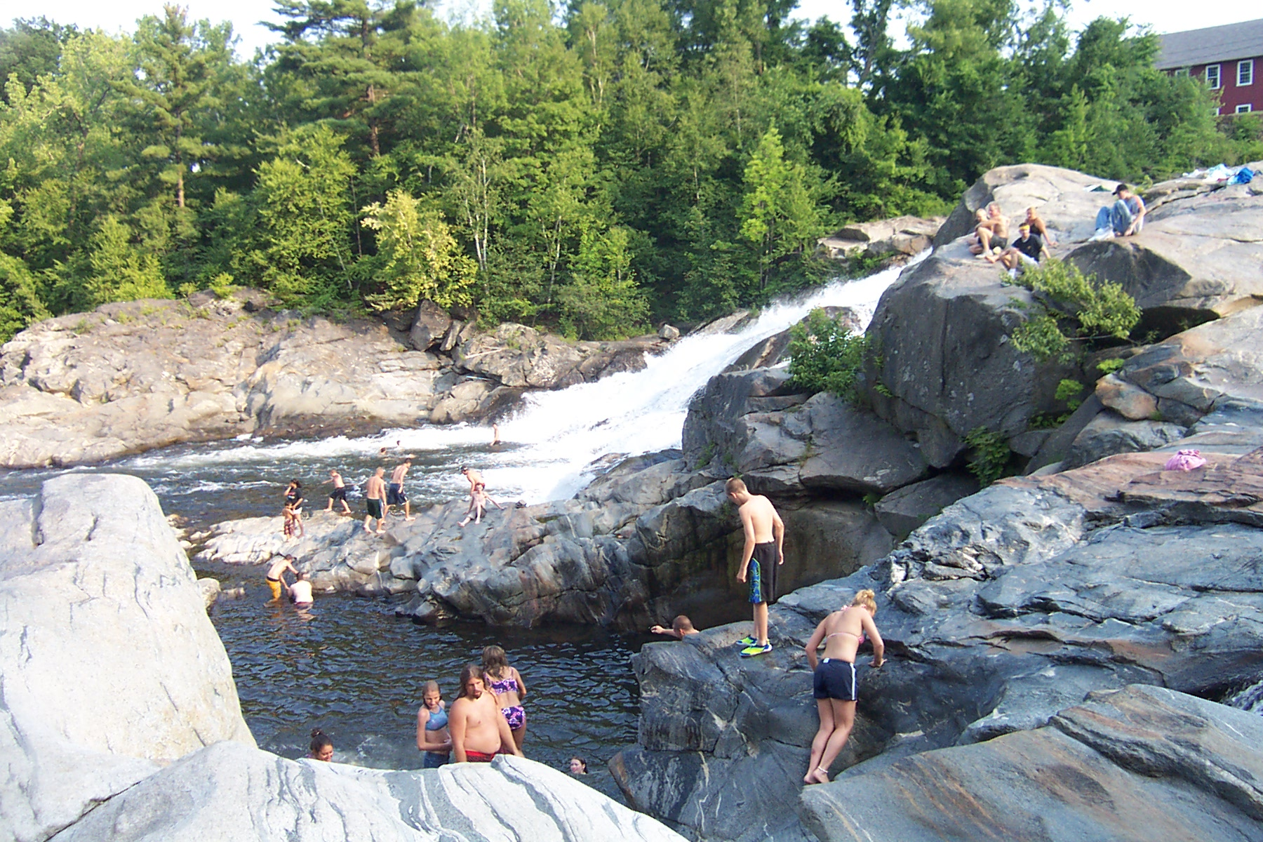 Swimming in the Deerfield River in Shelburne Falls, near the glacial potholes